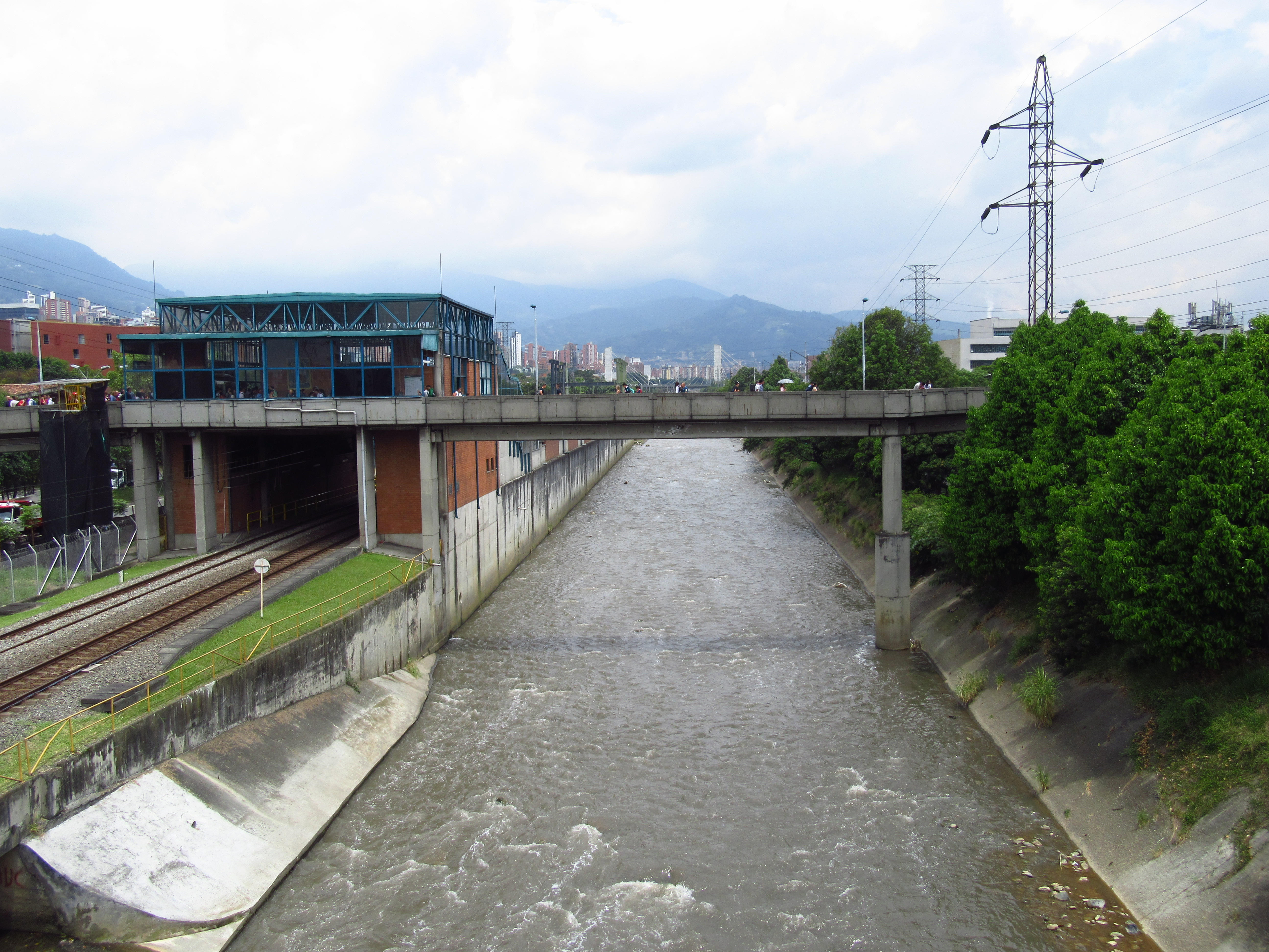 Medellín